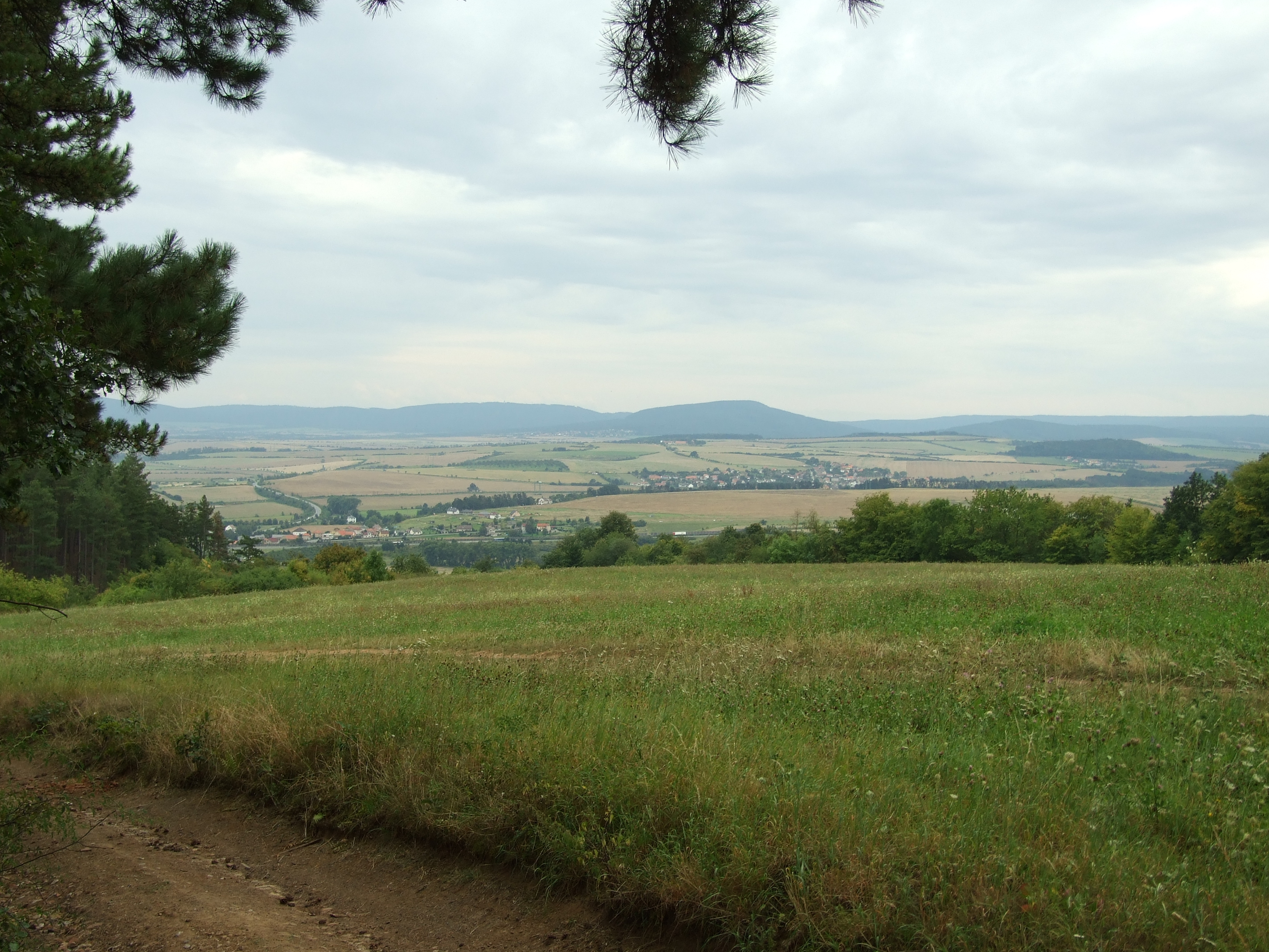 Landscape near Zdice and Knížkovice in Central Bohemian Region, CZ This photograph was taken within the scope of the 'Czech Municipalities Photographs' grant.